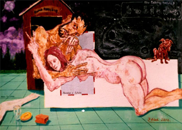 Jakab Elek - Talking Hands: Hommage a Schiele Title: EMBRACE oil on canvas, 100x140 cm, 2002